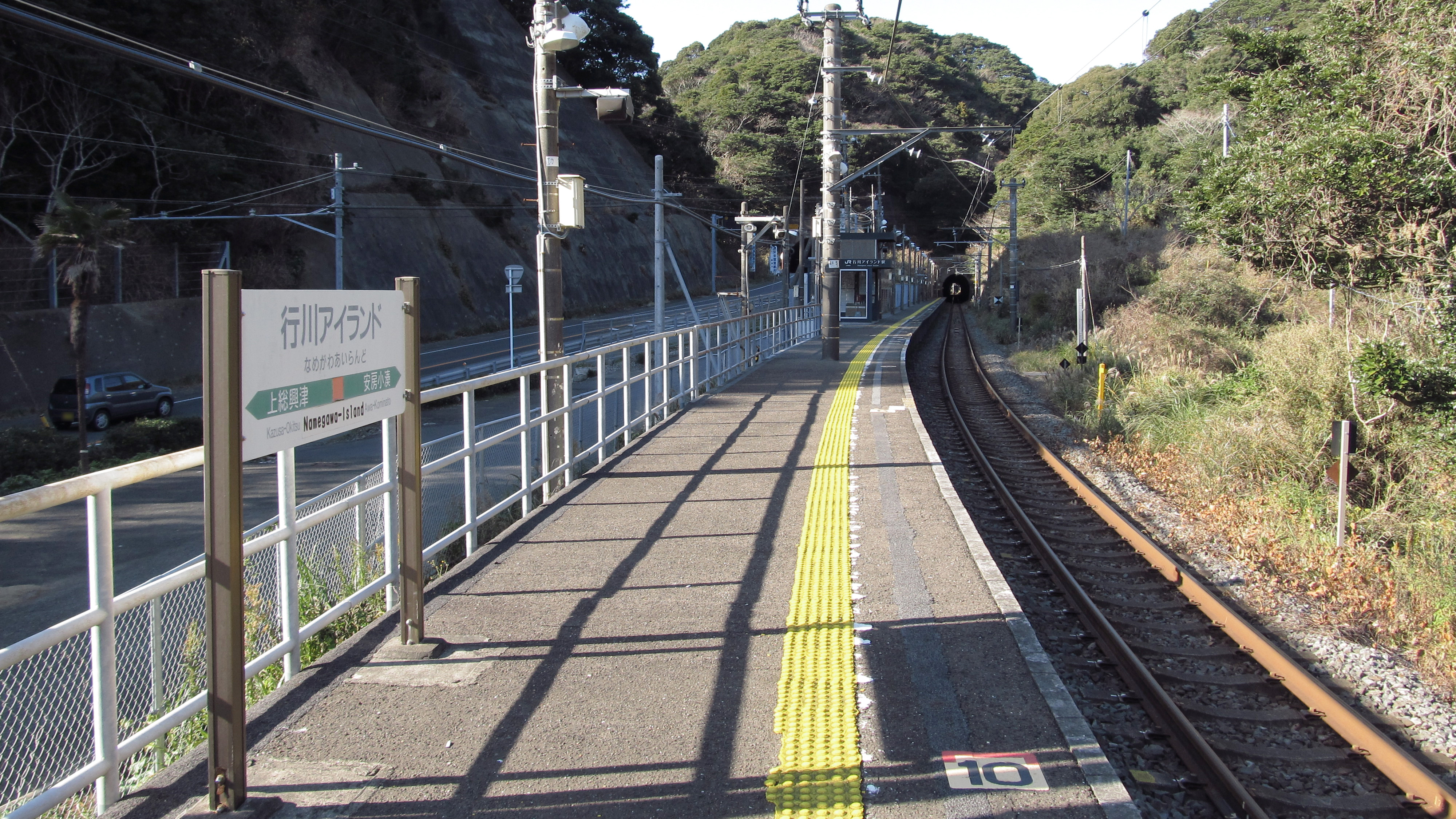 The platform at Namegawa Island Station on the Sotobō Line in Katsuura city, Chiba prefecture, Japan